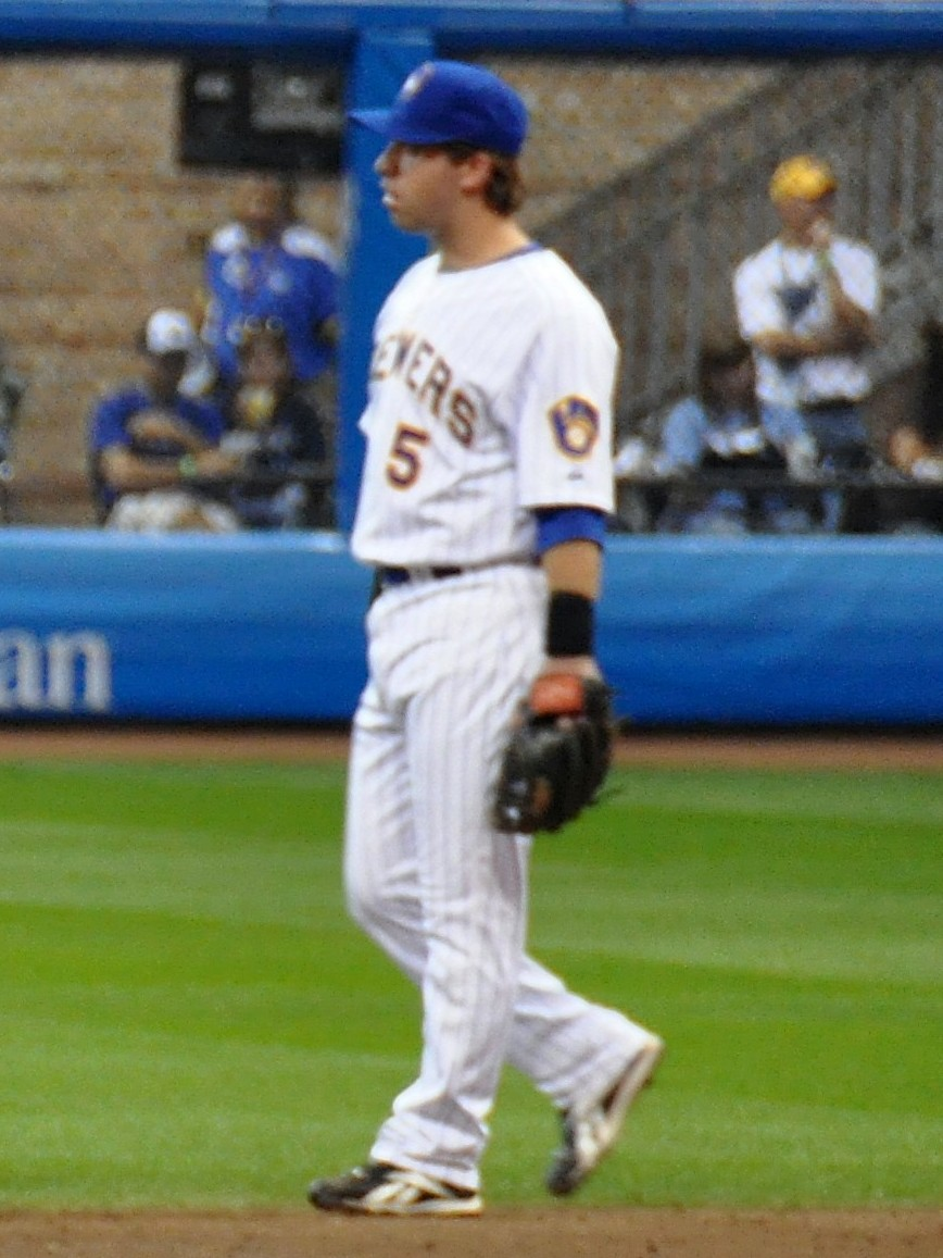 Ryan Howard of the Philadelphia Phillies on the basepaths at Miller Park during a 2011 game against the Milwaukee Brewers